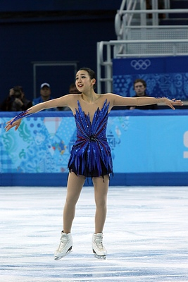 Mao Asada during her free program "Piano Concerto No. 2 " at the 2014 Winter Olympics.